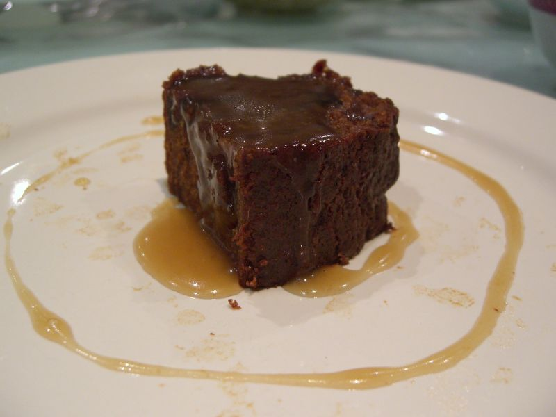 Eva and CY's Sticky Date Pudding with my rubbish presentation... :P I liked the consistency of the caramel sauce and was playing with it... and didn't notice the dirty plate!